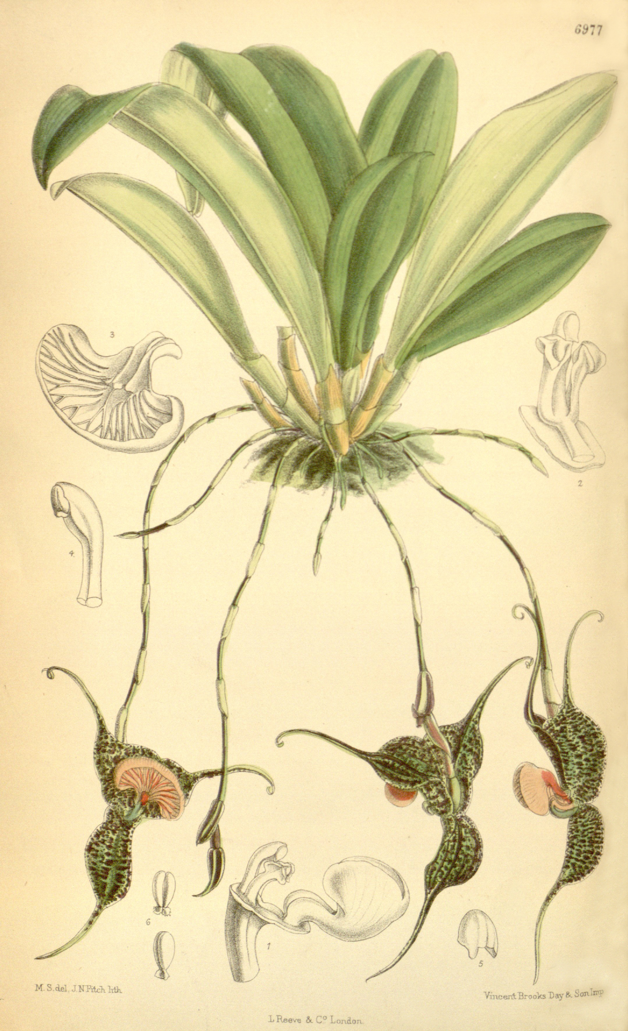 Illustration of Dracula chestertonii (as syn. Masdevallia chestertonii, spelled by Hooker as Masdevallia chestertoni)